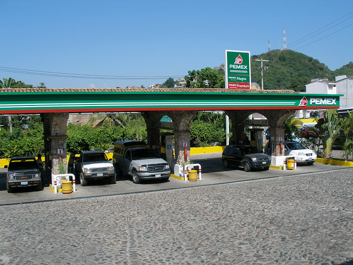 A Pemex gas station in Rancho Salvador Sol Torres, Jalisco, Mexico.